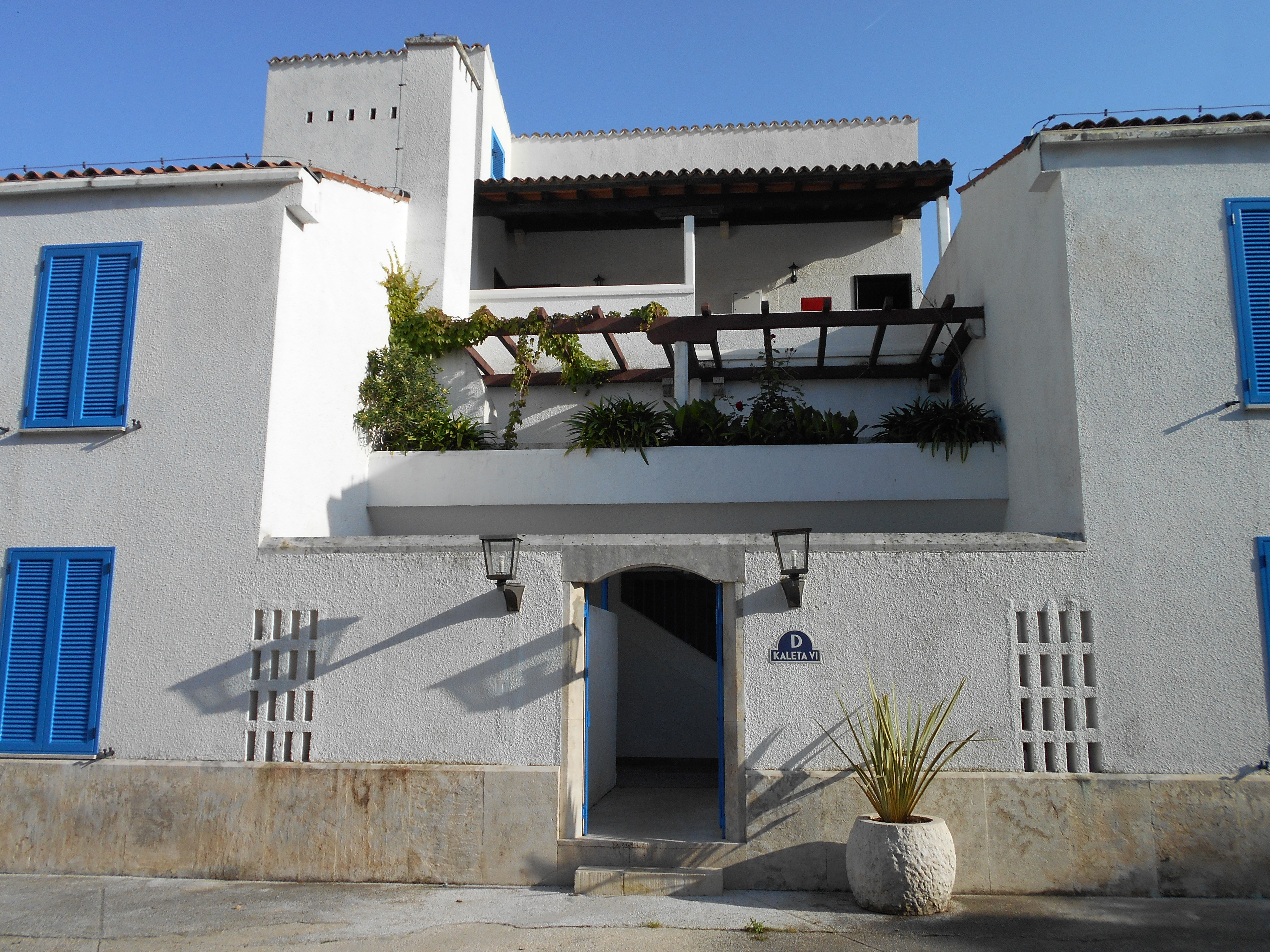 Architectural details in Slovenska plaža (Slavic beach) tourist resort in Budva (Montenegro)